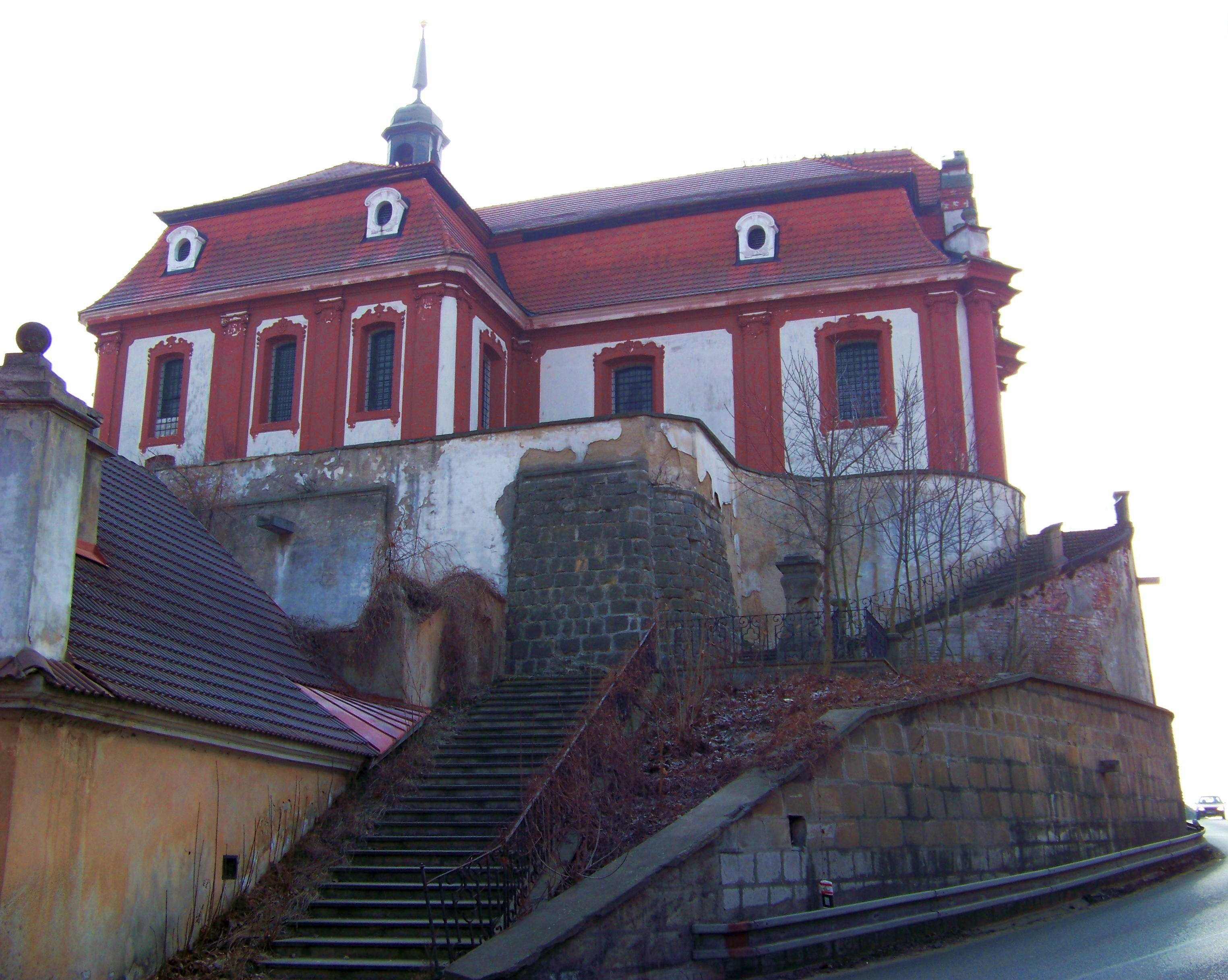 Liběchov, Mělník District, Central Bohemian Region, the Czech Republic. Saint Gall Church, seen from Pražská street.